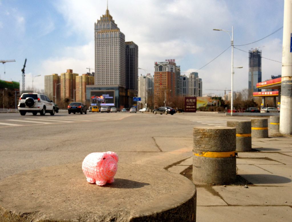 Das Häkelschwein in Shenyang